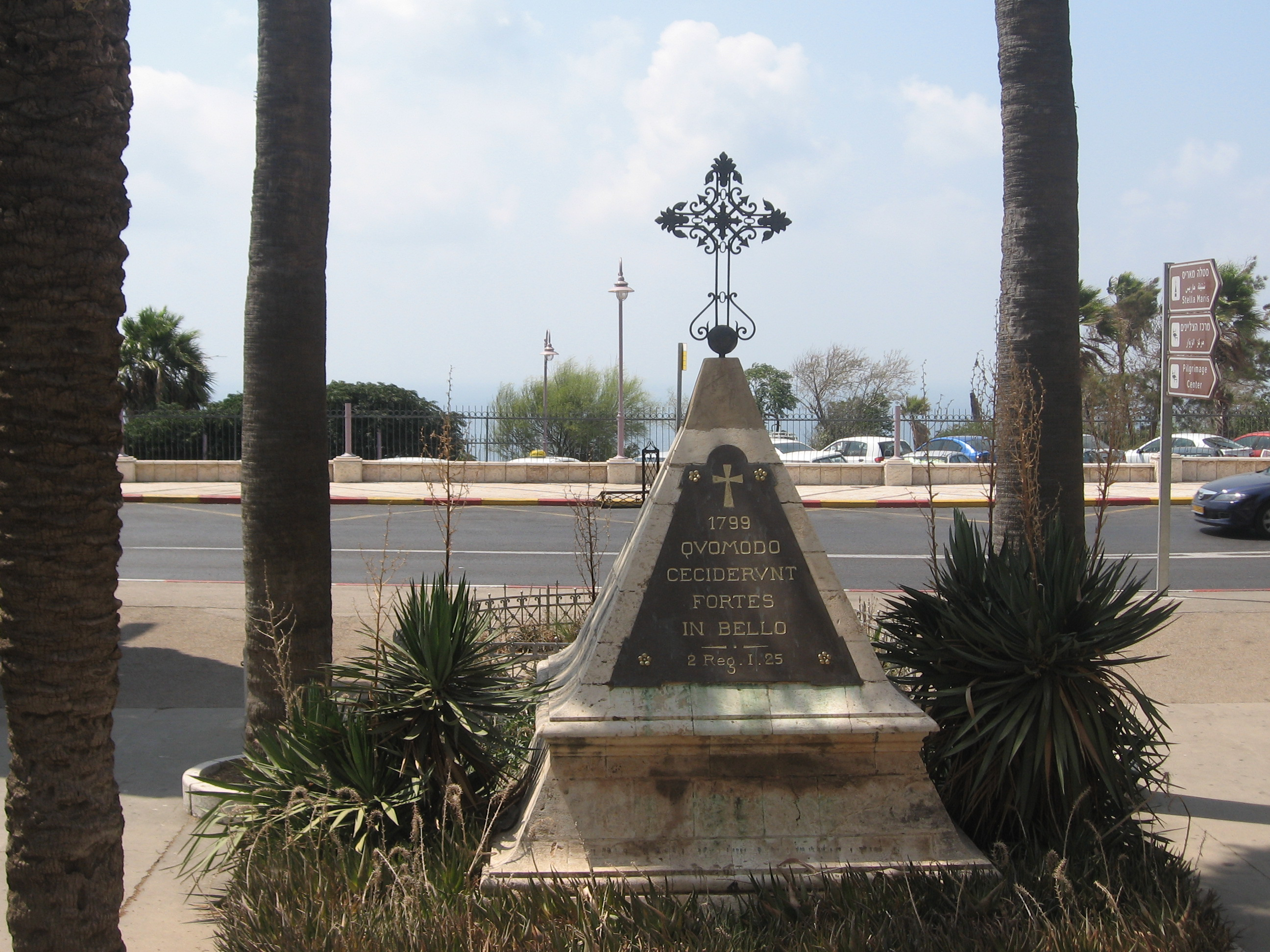 Monument to slaughtered Napoleon soldiers in front of Stella Maris monastery in Haifa, Israel